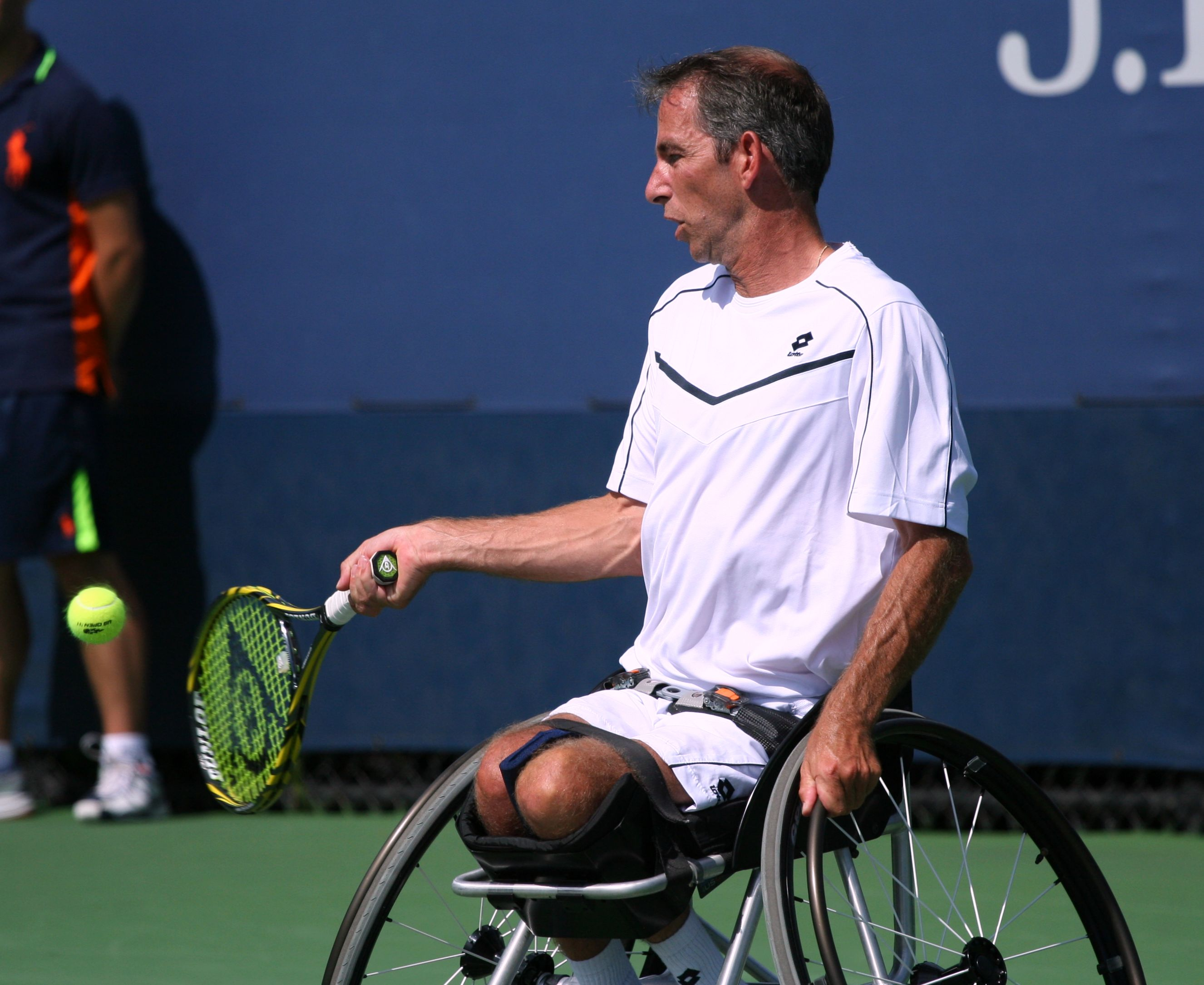 U.S. Open Wheelchair Thursday, Sept. 8, 2011